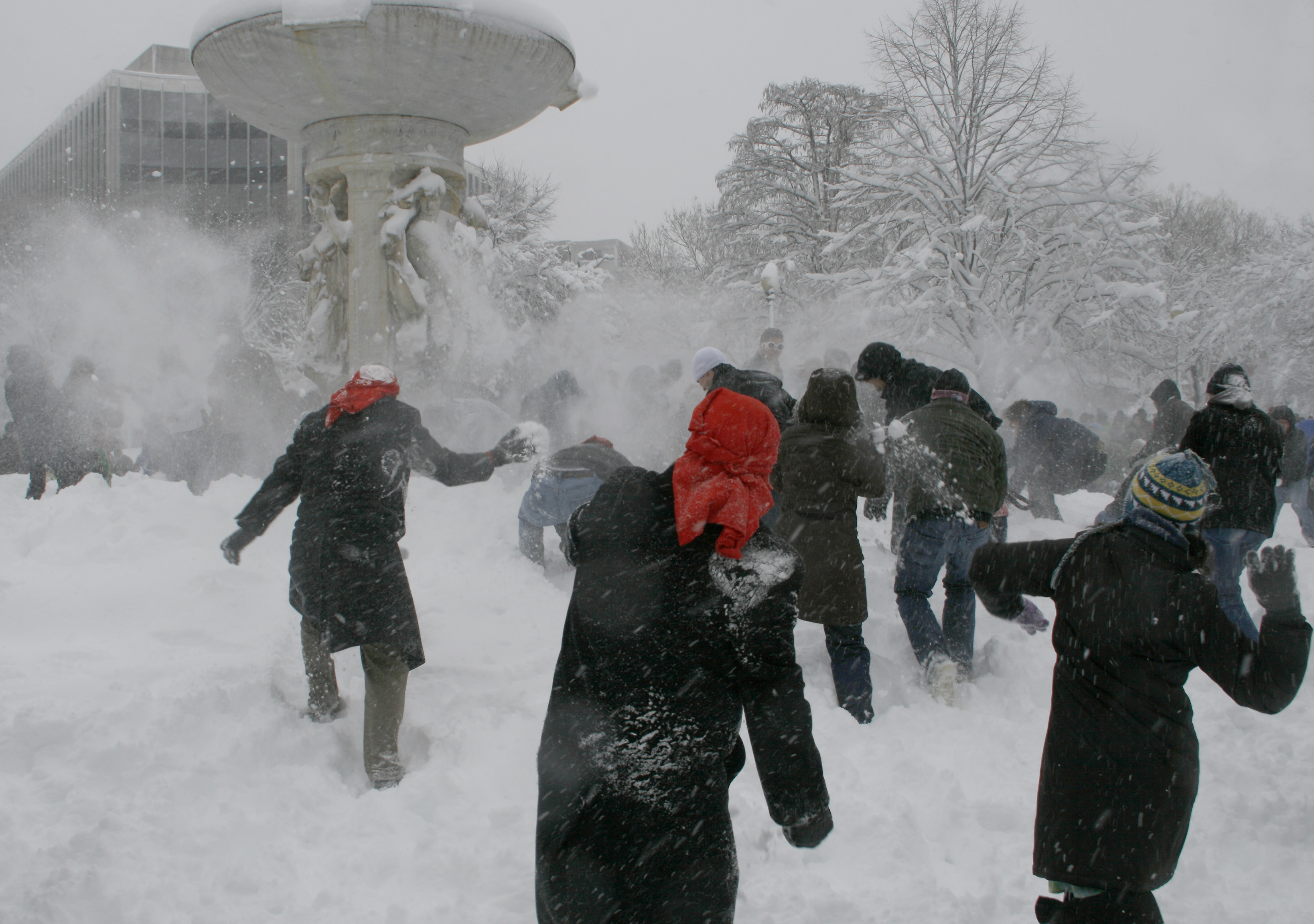 A snowball fight at the Dupont Circle fountain, located at the center of Dupont Circle in Washington, D.C., following the First North American blizzard of 2010.